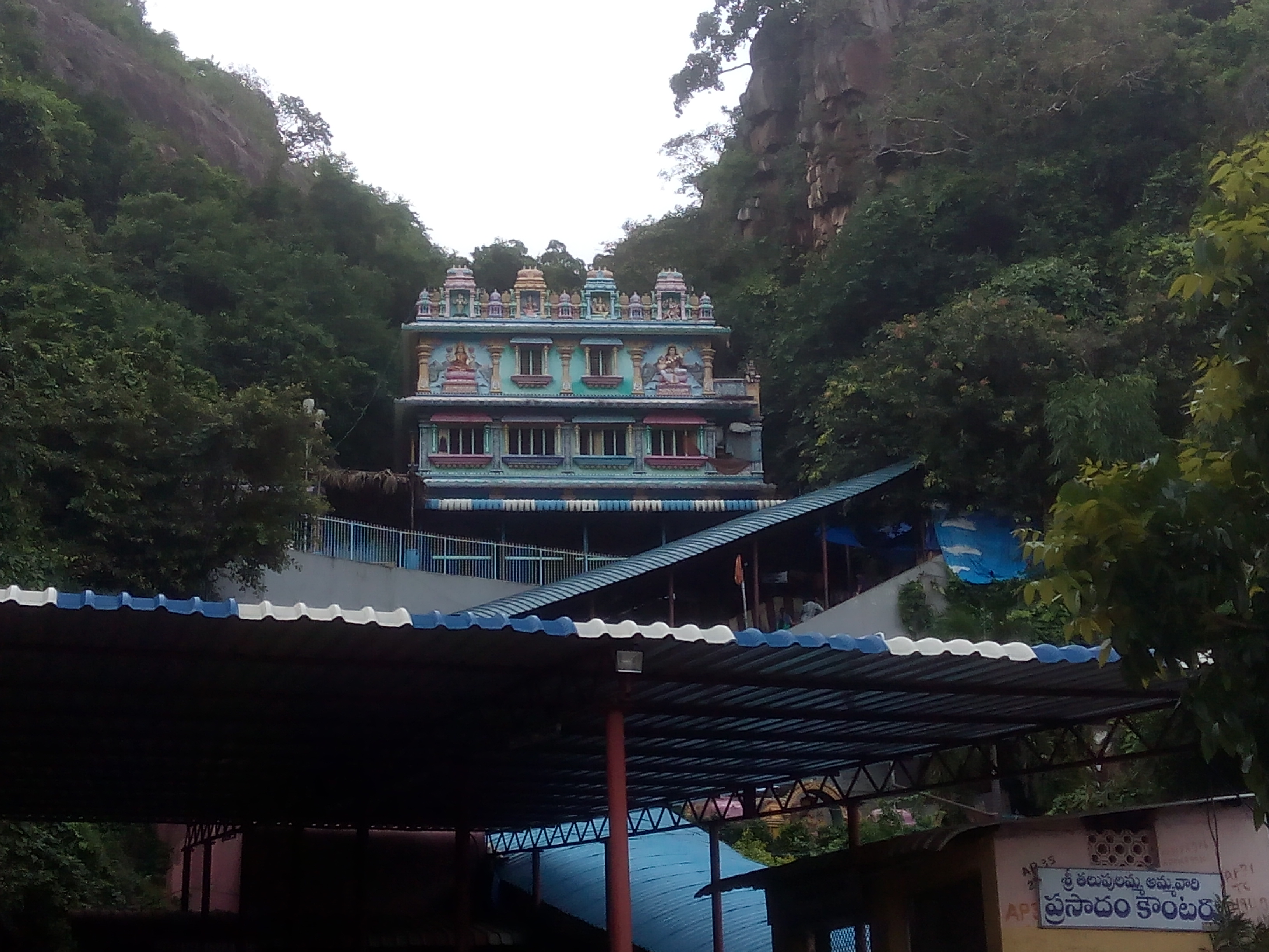 talupulamma lova temple, lova village, vishakhapatnam district, andhra pradesh.